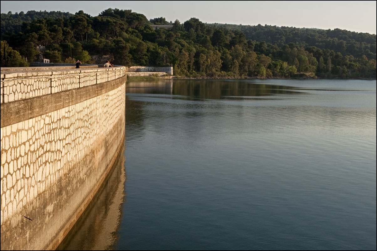 Dam and the Artificial Lake of Marathon, Attica, Greece.